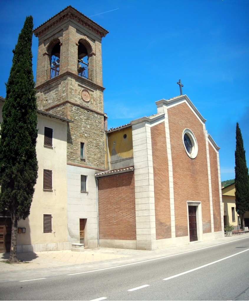 church of Pianello, Perugia, Umbria, Italy